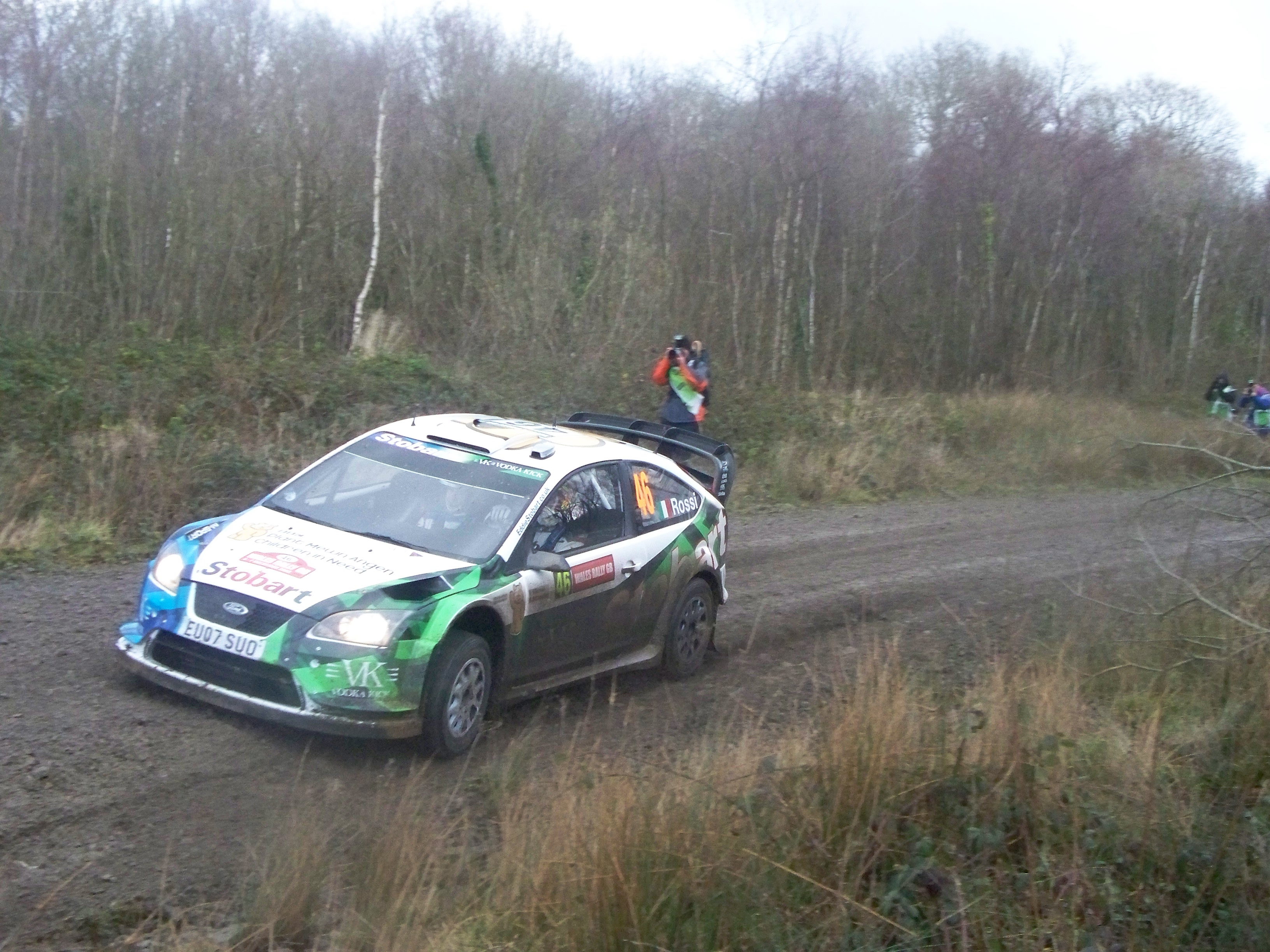 Valentino Rossi at the Shakedown stage of Wales Rally GB 2008